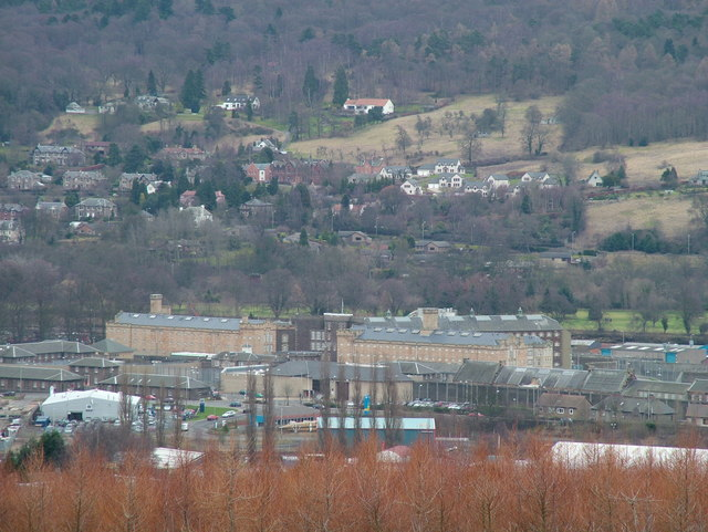 Perth Prison